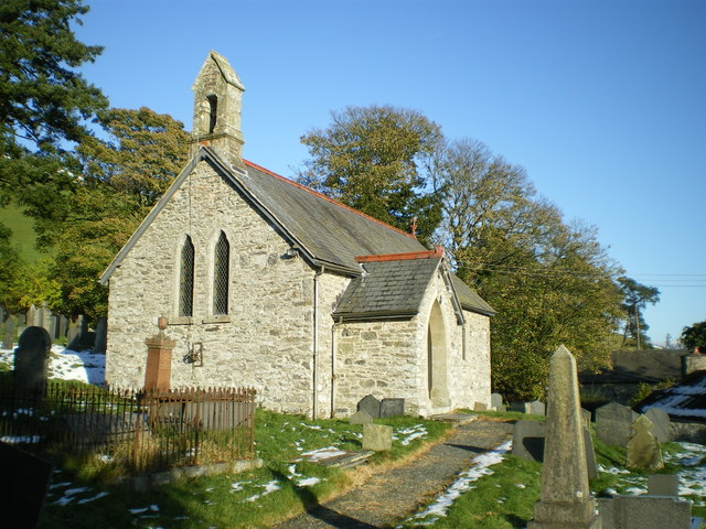 The chapel [Note: this is actually the historic parish church] in Llanarmon Mynydd Mawr, near to Tai-Bach, Powys, Wales.